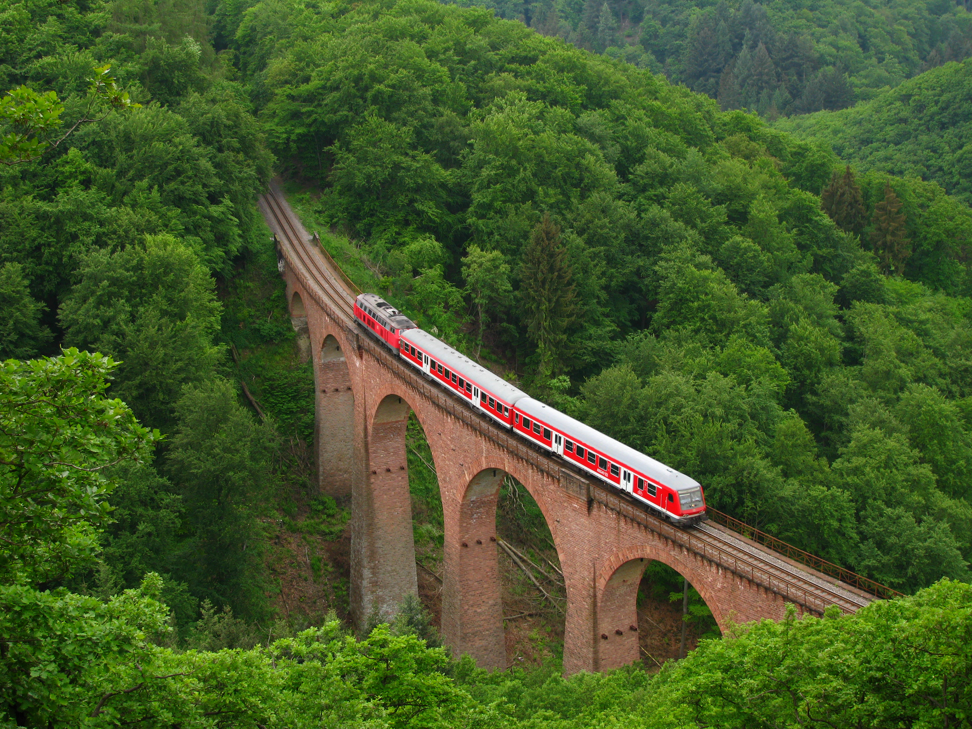 The Hubertusviadukt a part of the Hunsrück railway between Boppard Boppard-Buchholz. Diesel locomotive with two passenger wagons. Photo was taken from the "Liesenfeld Hütte".